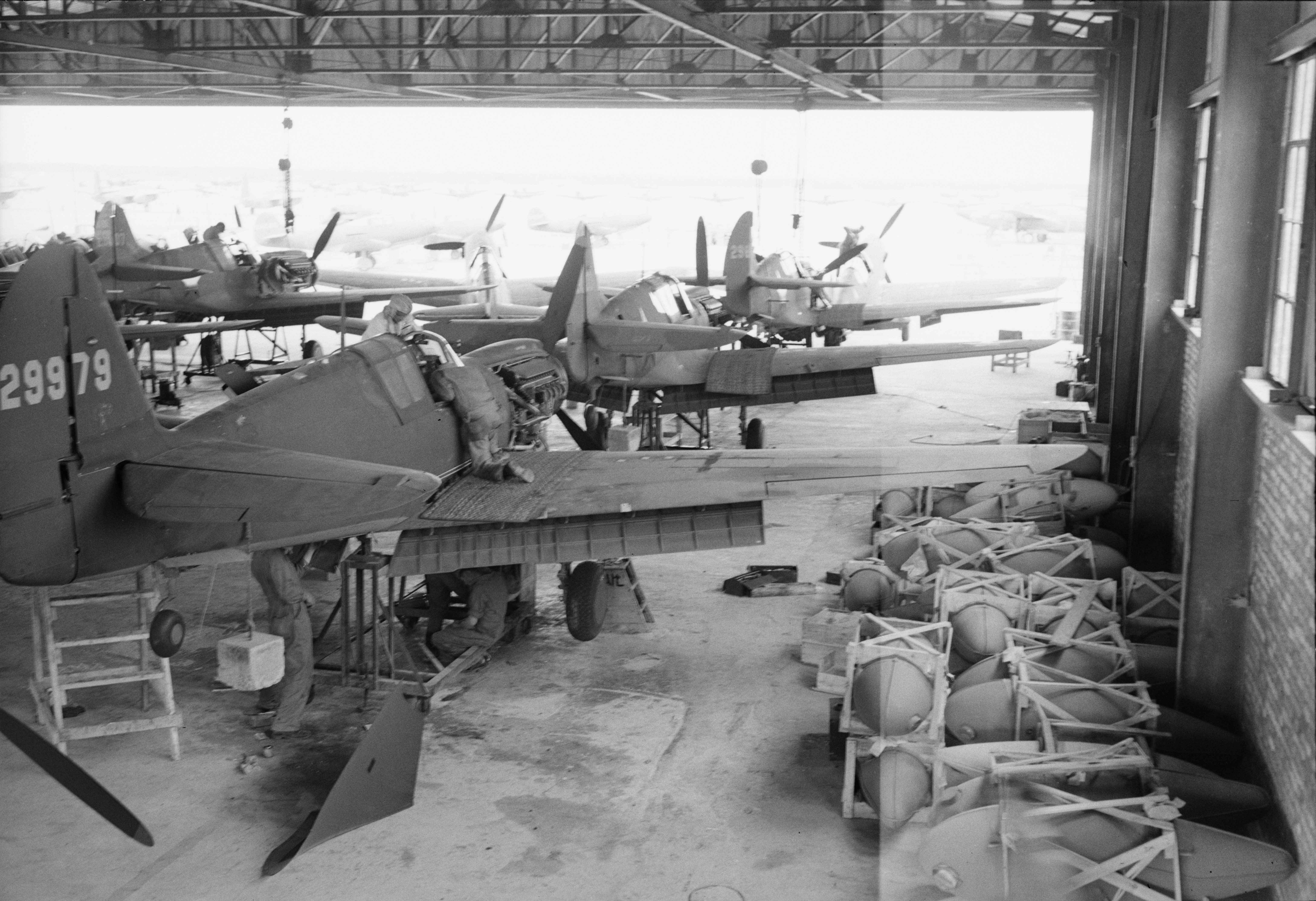 An assembly plant for American fighter warplanes destined for Russia, somewhere in Iran.